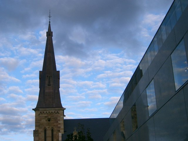 St Patrick's Catholic Cathedral